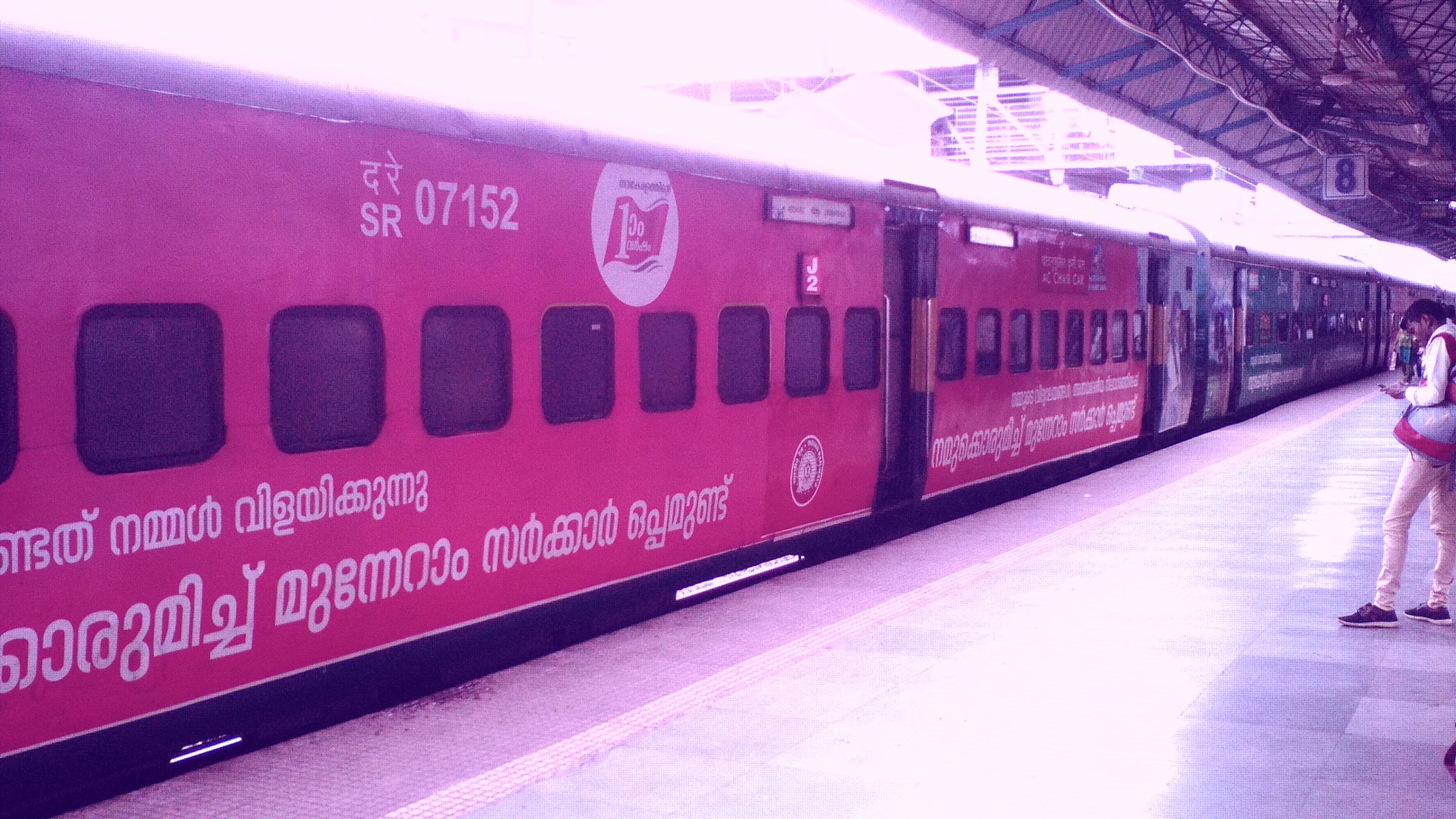 AC3 tier coach of Garib Rath Express